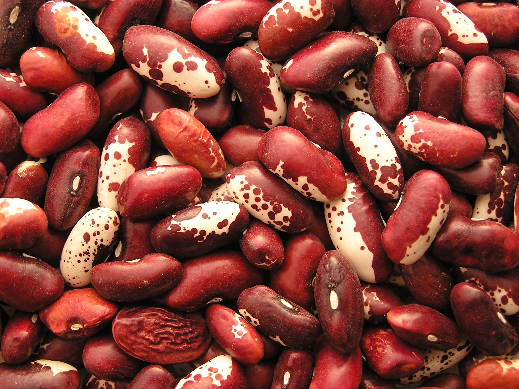 Phaseolus vulgaris